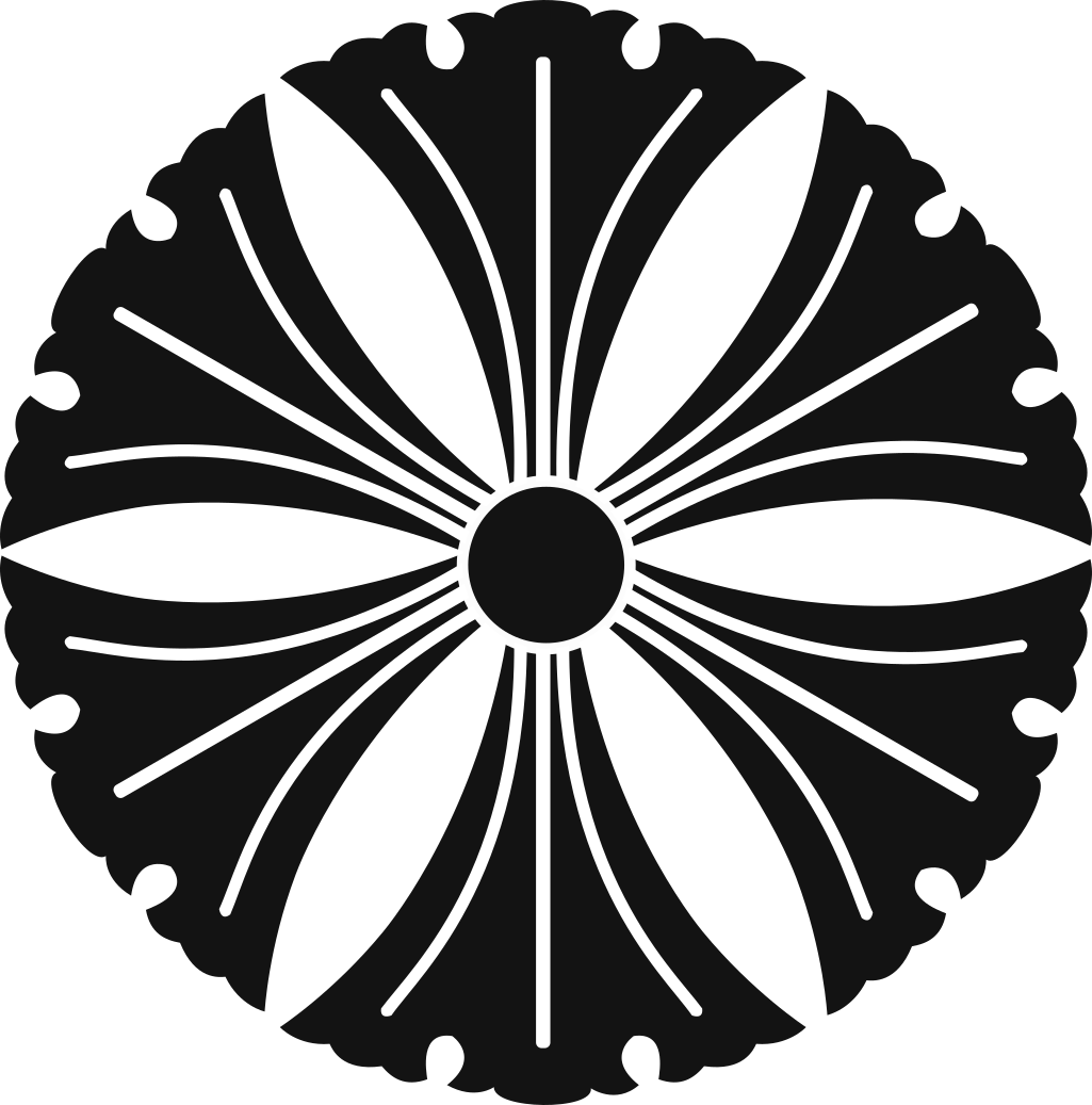 Japanese Crest, Mutsu Ichou, Six-leaf ginko